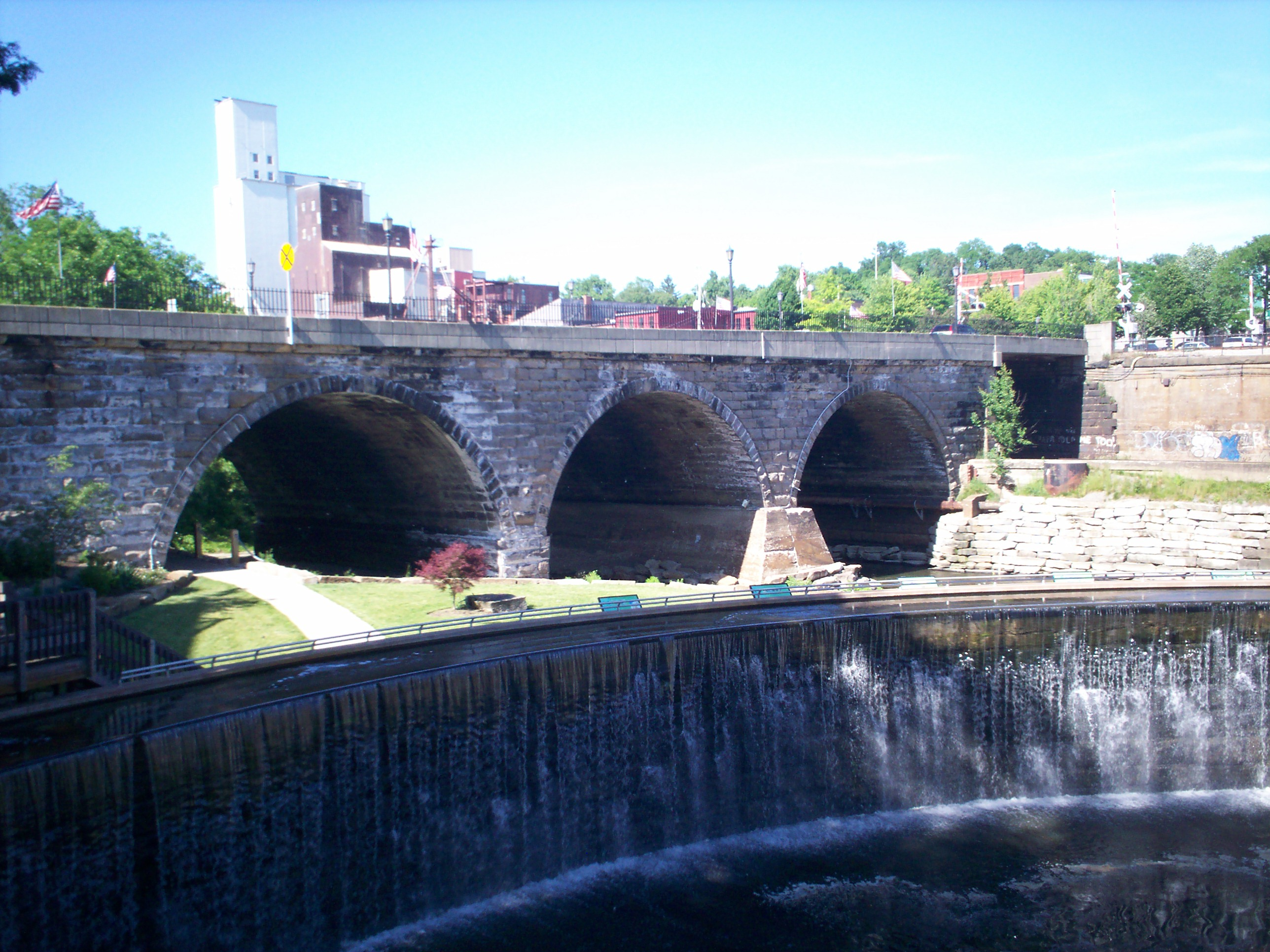 View of historic 1877 Main Street Bridge and 1836 arch dam in downtown Kent, Ohio. Both form part of the Kent Industrial District, a listing on the National Register of Historic Places. The dam was bypassed in 2004 through a widening of the former Pennsylvania and Ohio canal lock on the far right and Heritage Park was built in much of the area behind the dam. Today, water is artificially pumped over the dam during warm-weather months.